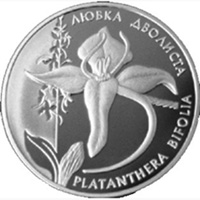 Coin of Ukraine